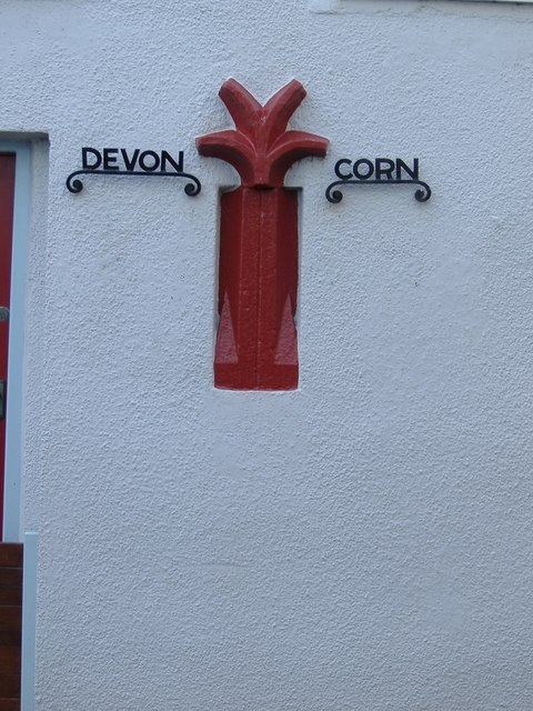 Devon Corn This marker set into the side of a cottage marks the boundary between Kingsand (Devon) and Cawsand (Cornwall) - though both are now in Cornwall as the boundary has been moved.